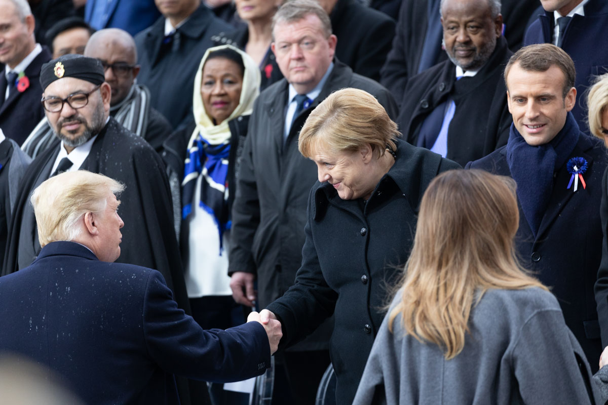 President Donald J. Trump and First Lady Melania Trump attend the Centennial of the 1918 Armistice Day ceremony Sunday, Nov. 11, 2018, at the Arc de Triomphe in Paris. (Official White House Photo by Shealah Craighead)